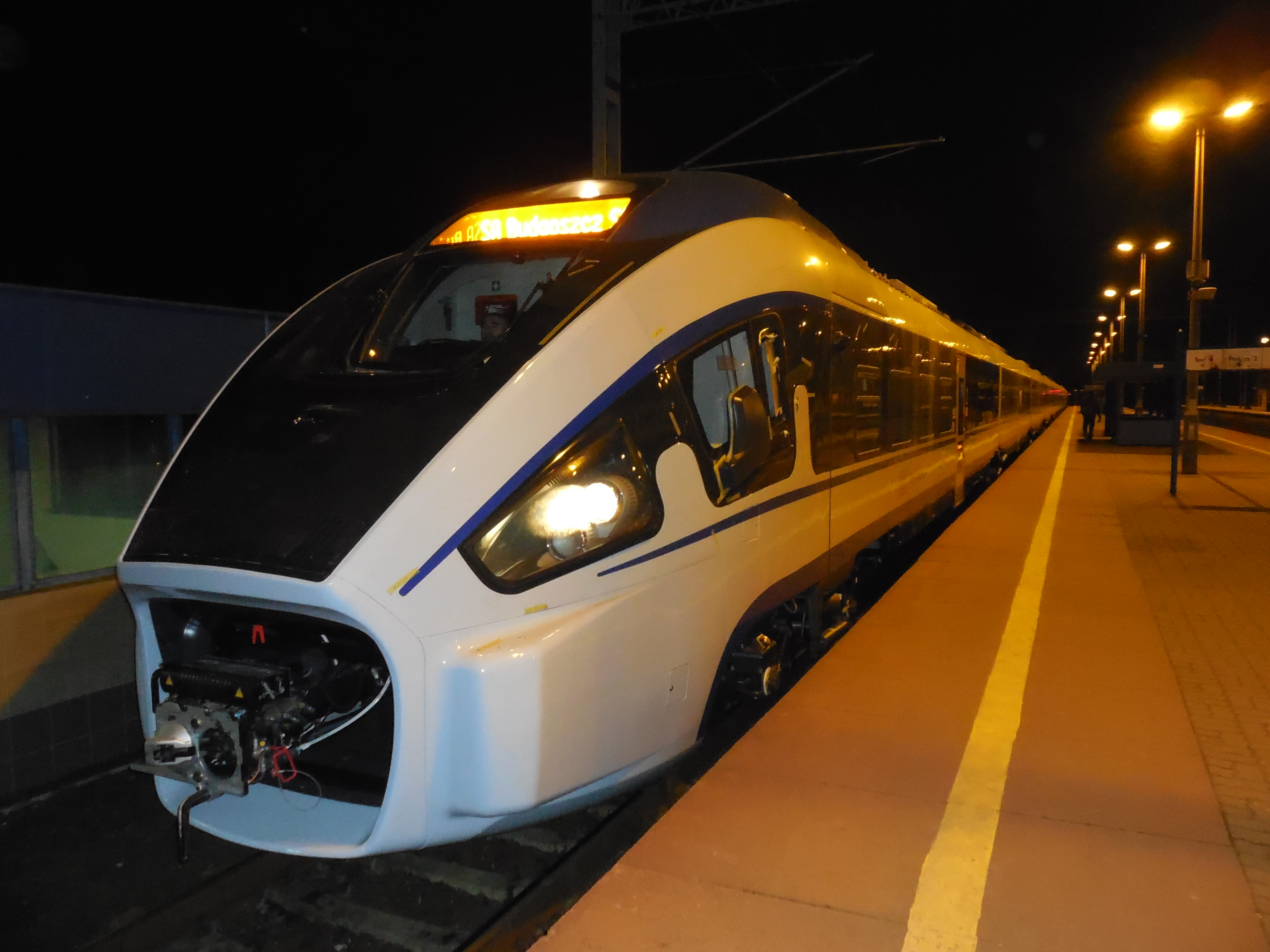 The latest acquisition of PKP IC electric multiple unit ED161-010 at the station Blonie. This team, along with ED161-011, they were going out of the factory PESA Bydgoszcz to the parking station Warsaw Olszynka Grochowska, to them his home station. Both trains stopped to pass trains going in the direction of Warsaw.